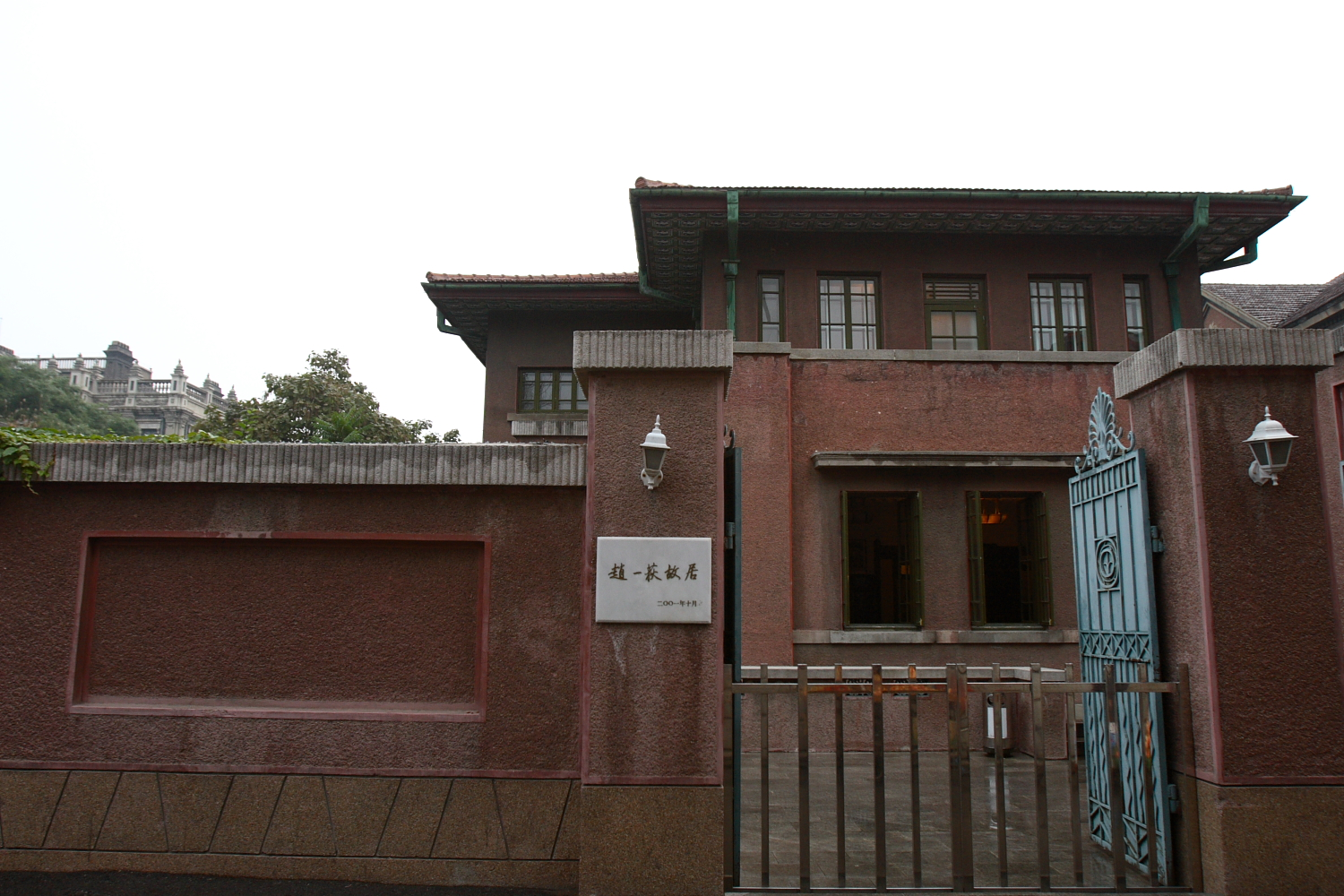 Zhao Yidi's Former Residence, Shenyang, China